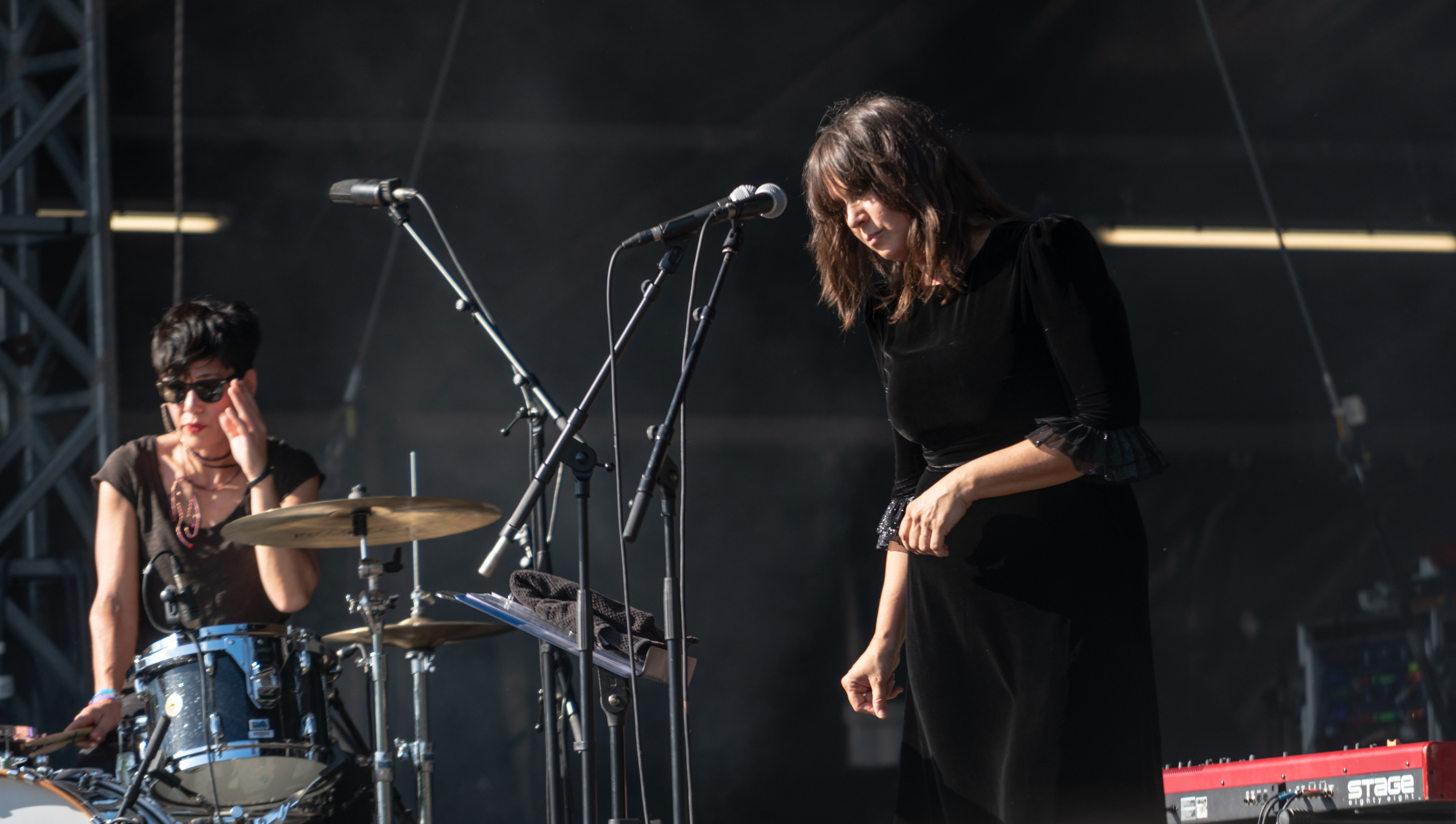 APENationalVicPark020618-61